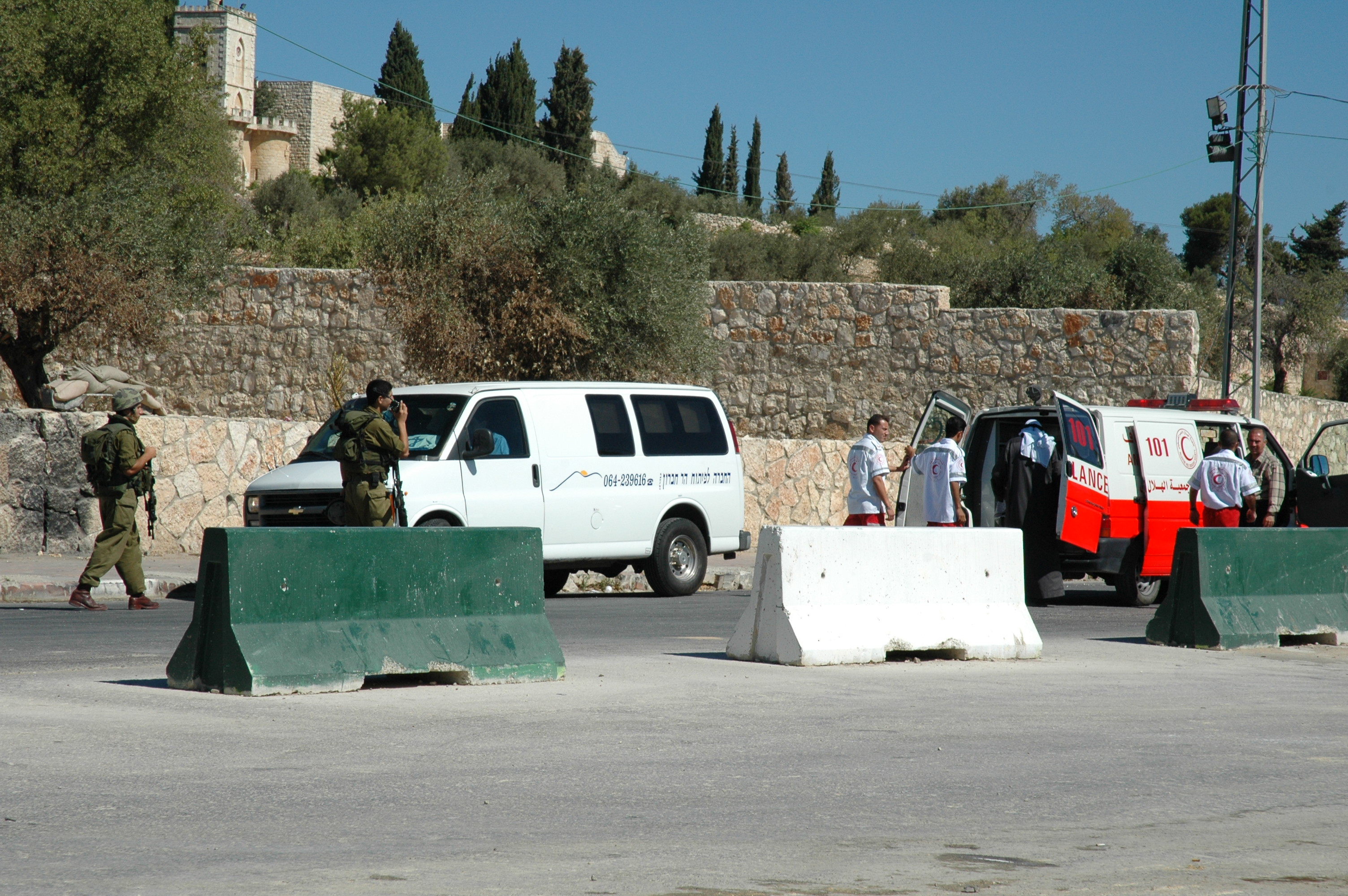 A Red Crescent ambulance is searched at an Israeli checkpoint at the entrance to Jerusalem from Bethlehem.